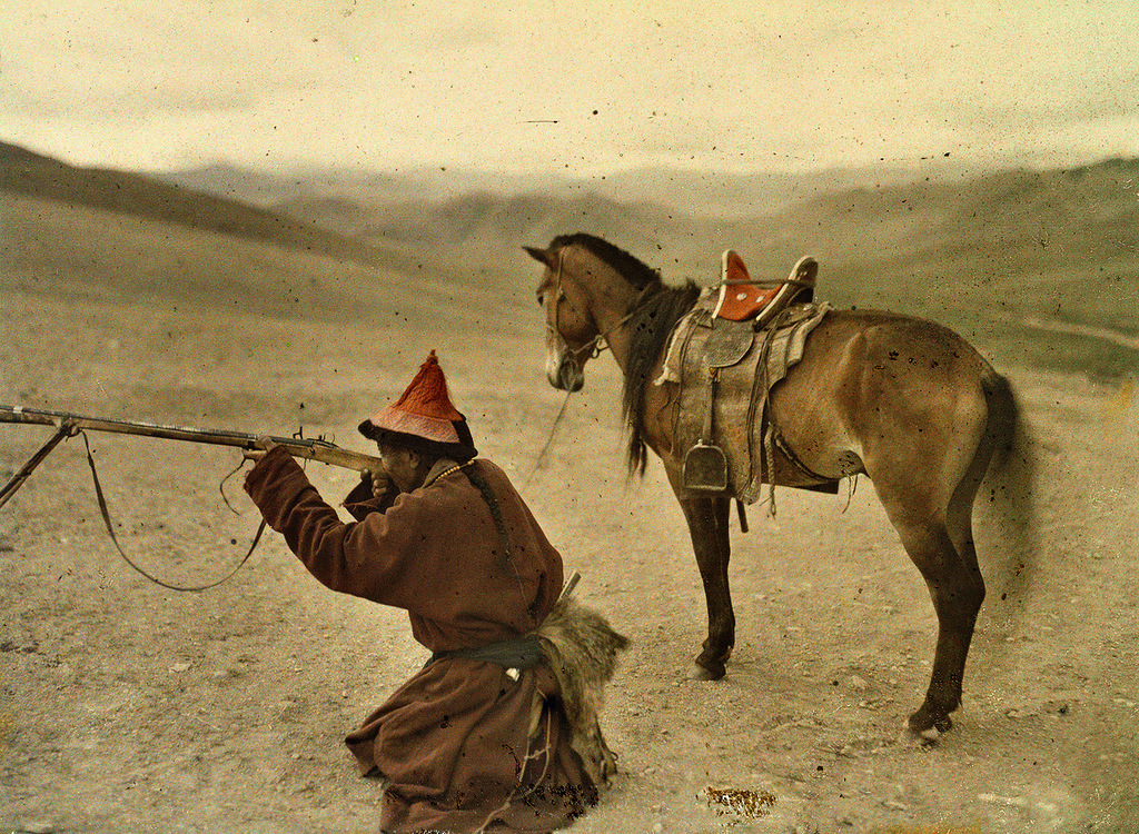 Hunter, near Urga, Mongolia. Autochrome.